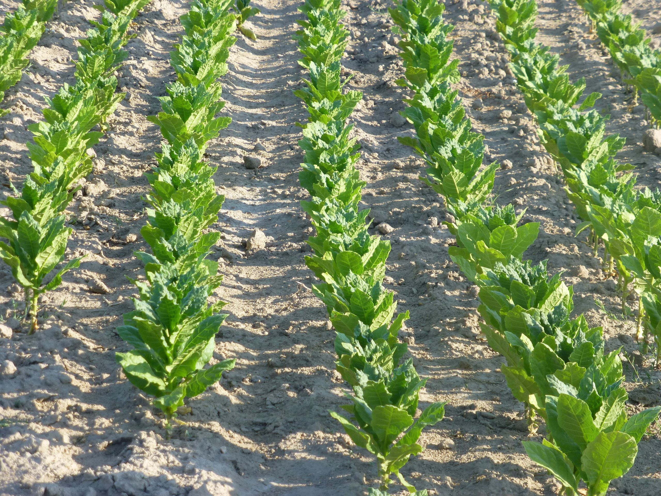 A tobacco field in the Prilepsko Pole (Prilep Flatland), just east of Krivogaštani.